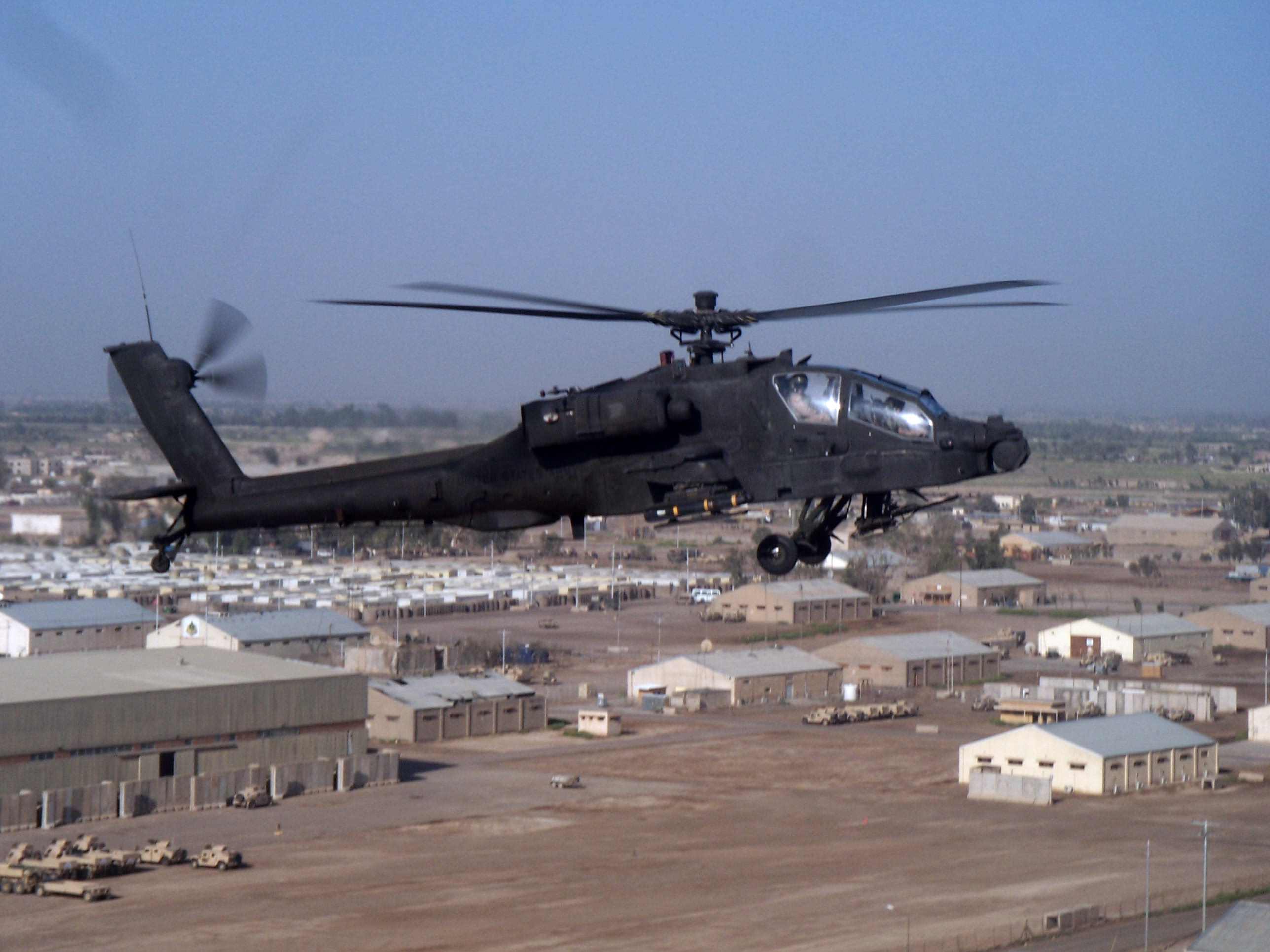 AH-64D Apache over Iraq